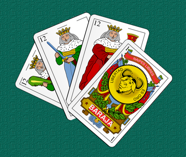 example of a good combination of cards in the Spanish card game "el mus"